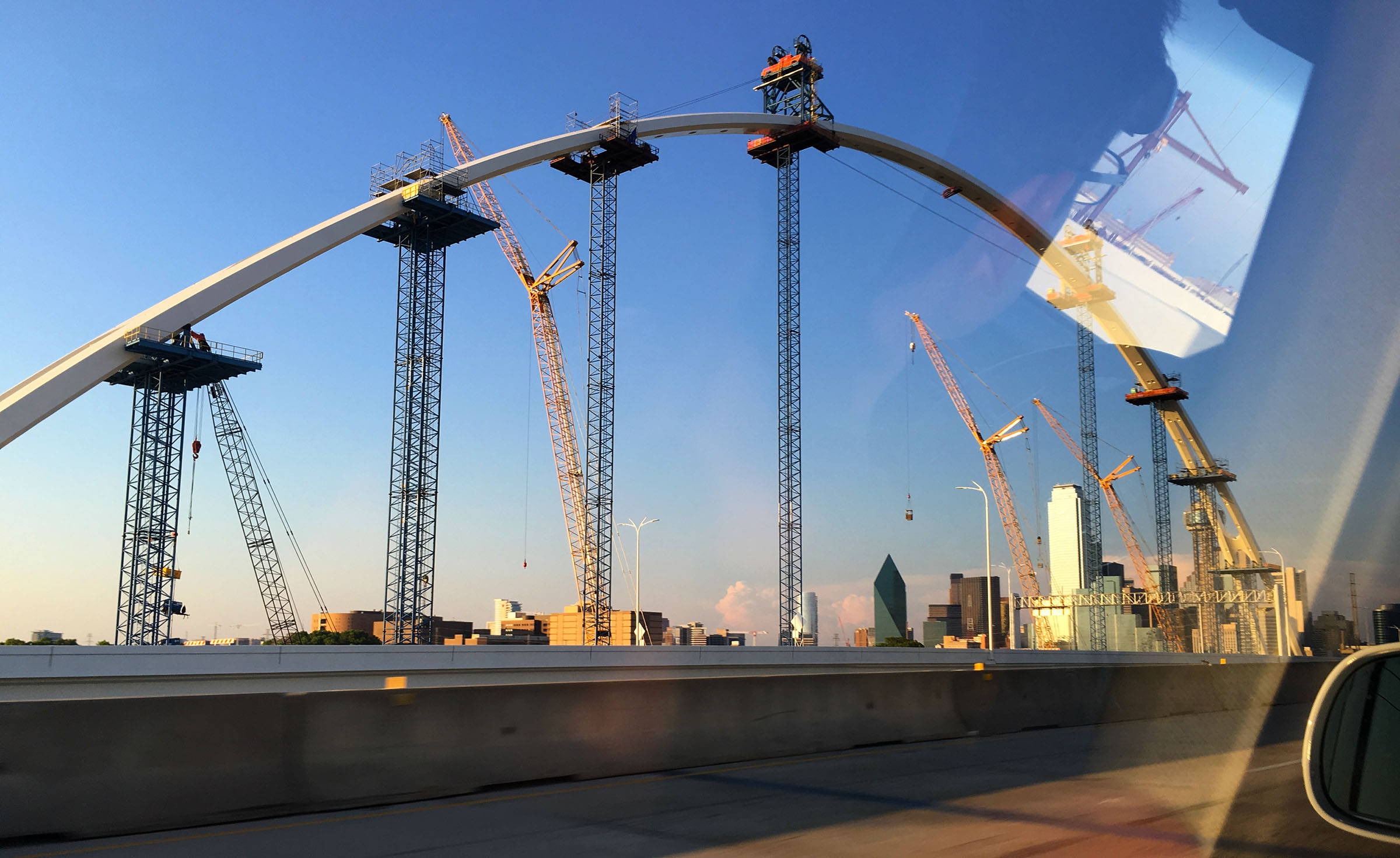 Margaret McDermott bridge, north arch, under construction with a view of Downtown Dallas, July 2016